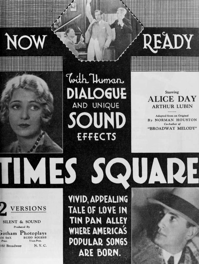 Trade advertisement for the American film Times Square (1929) with Arthur Lubin and Alice Day.